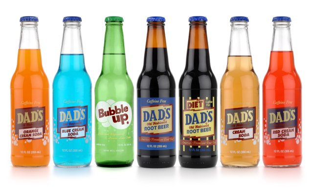 Dad's Root Beer products shown in glass bottle group shot.